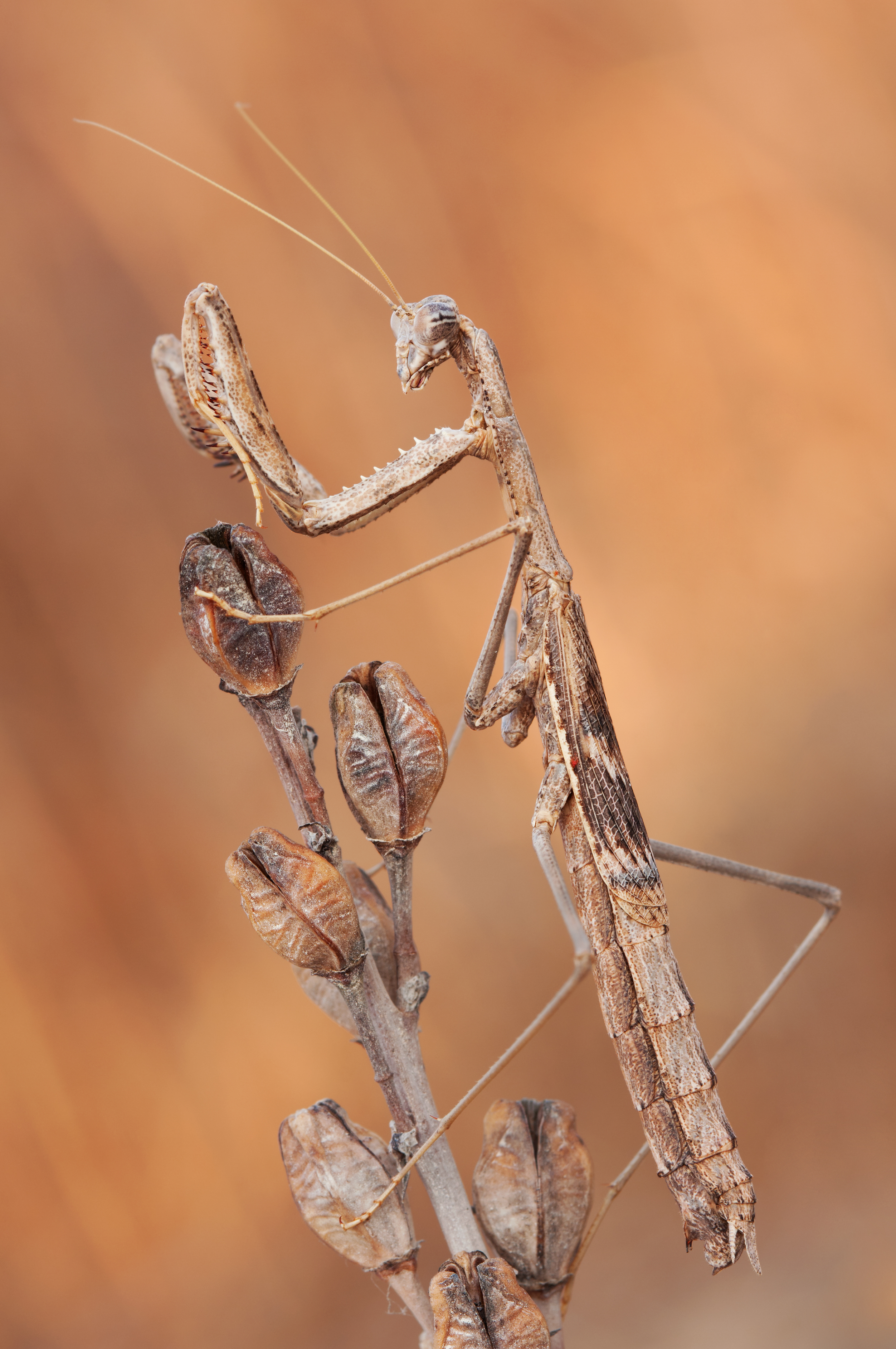 Rivetina baetica Rambur, 1839Sicily